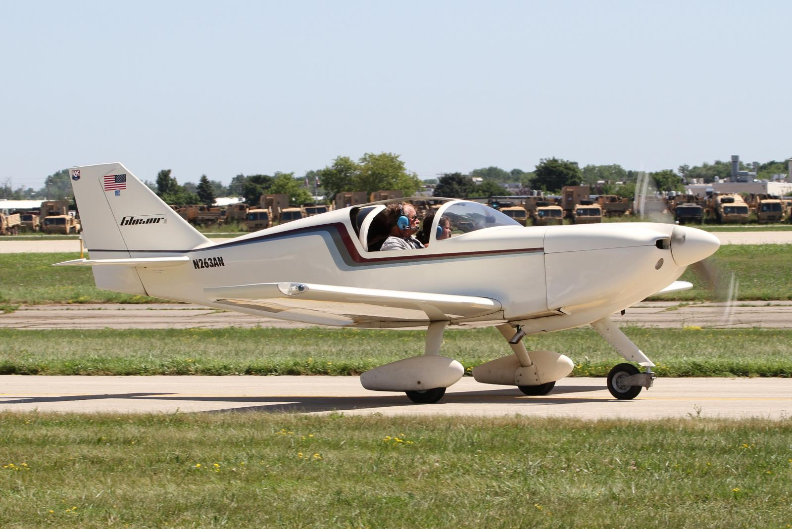 Beauchesne/wells Glasair TD (N263AN)